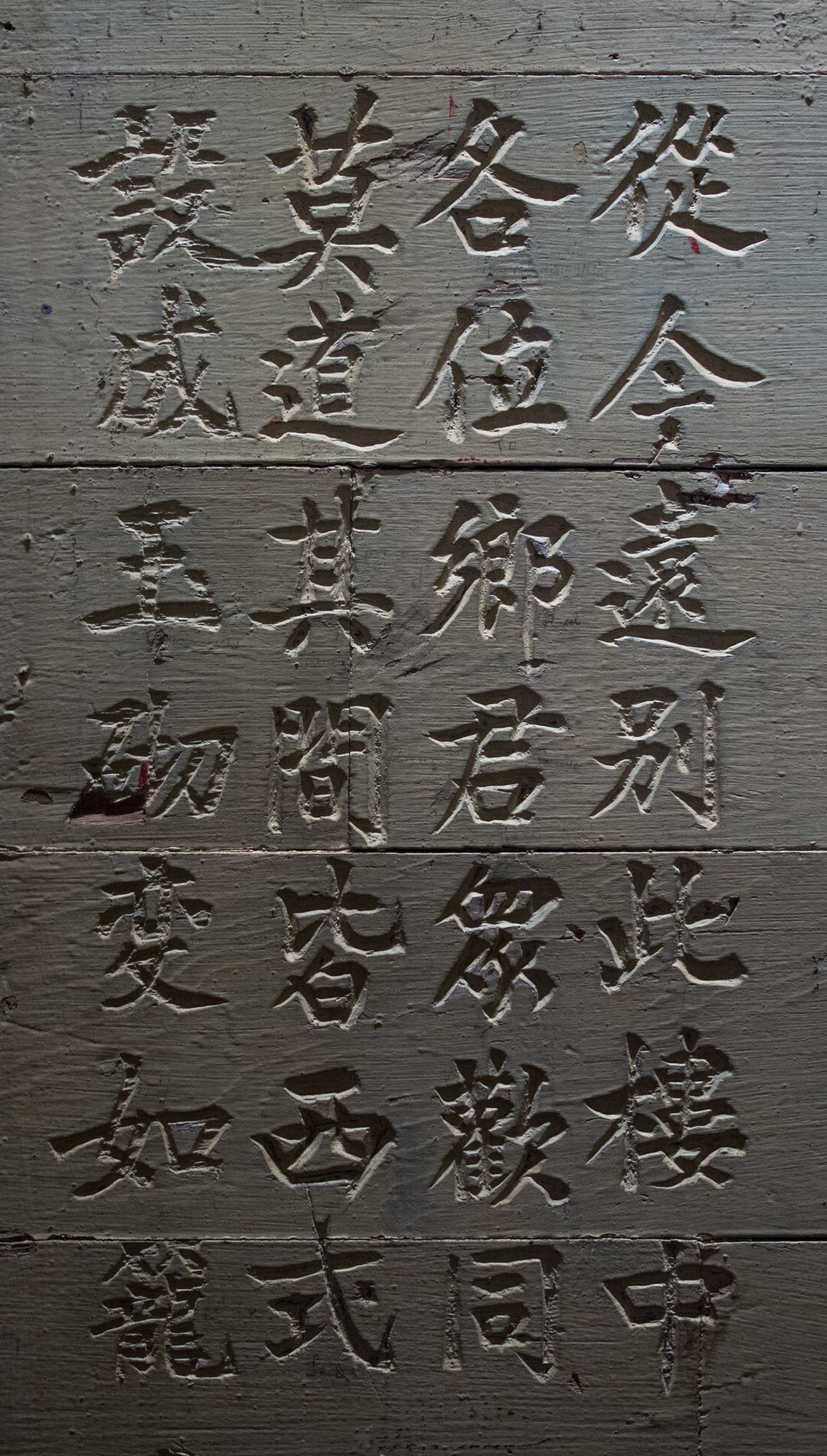 Chinese poetry (column 1) on the wall in the Angel Island Immigration Station. See also column 2.